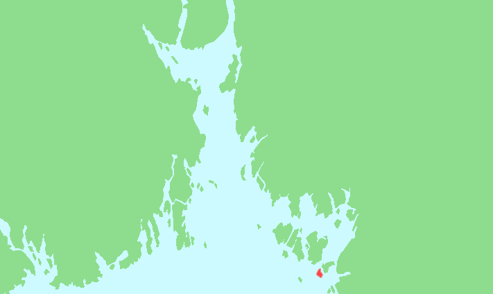 Locator map of Herføl, Østfold, Norway